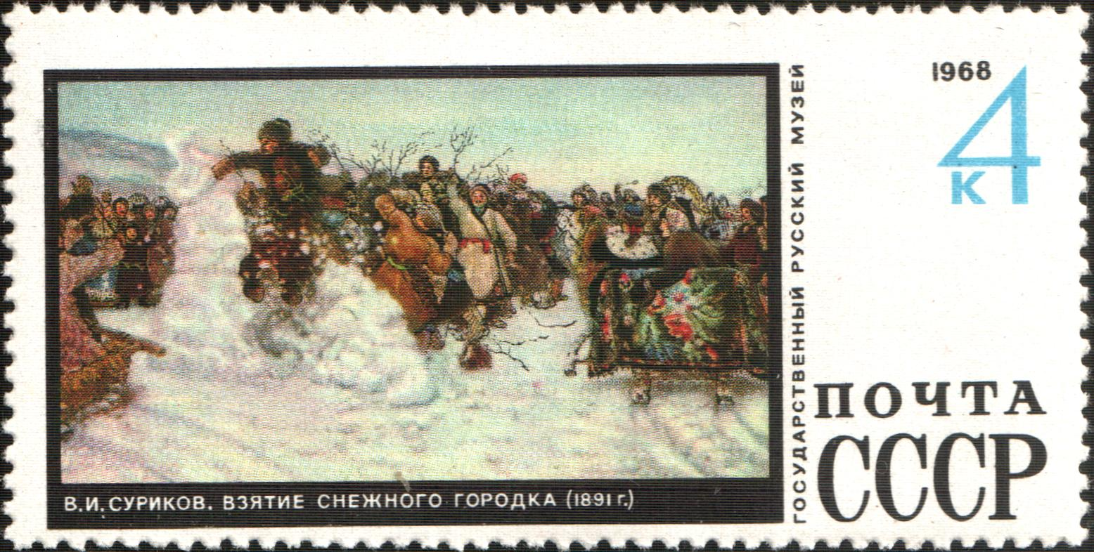 USSR stamp: “Storm of Snow Fortress” (1891) by Vasily Surikov (1848–1916). Series: Paintings in the State Russian Museum (Saint Petersburg)